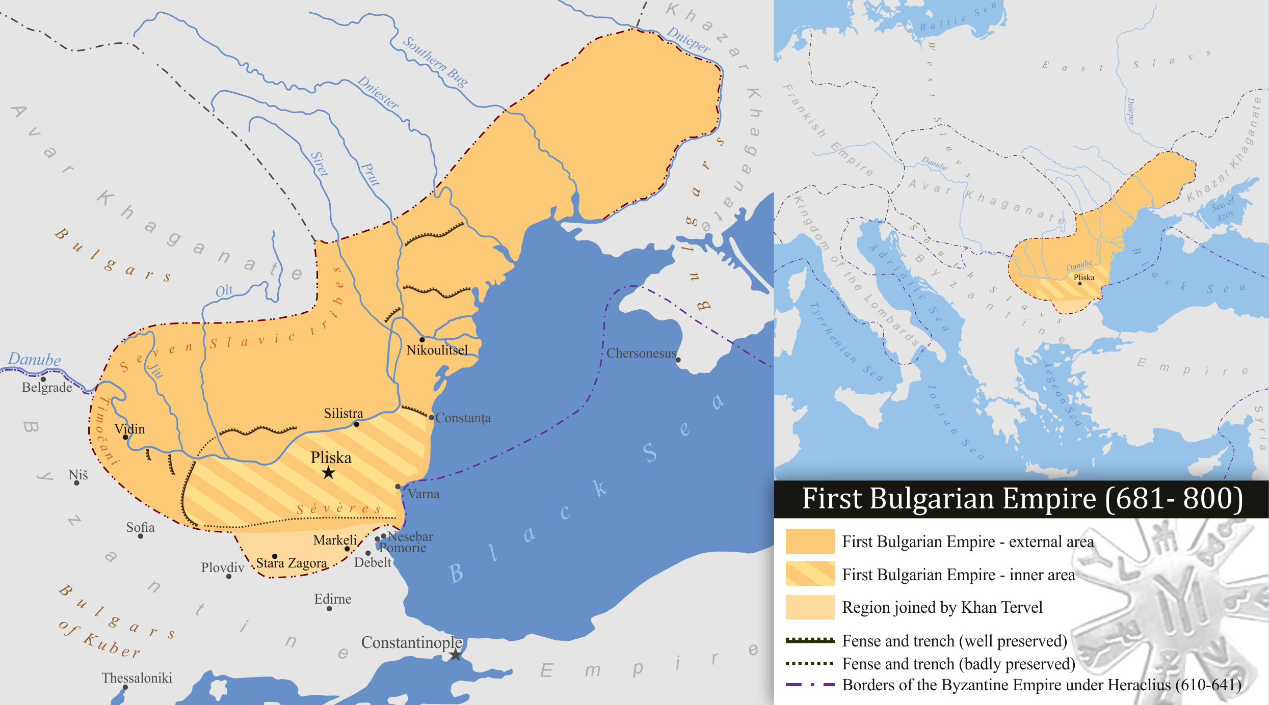 First Bulgarian Empire (681-800) Основана на Карта № 1. "Начална територия на България по Долни Дунав и северозападното Черноморие (681—800 г.)" в книгата "Политическа география на средновековната българска държава. Част I. От 681 до 1018 г.", Петър Коледаров, София, 1979 г., Издателство на Българска Академия на науките. [1]